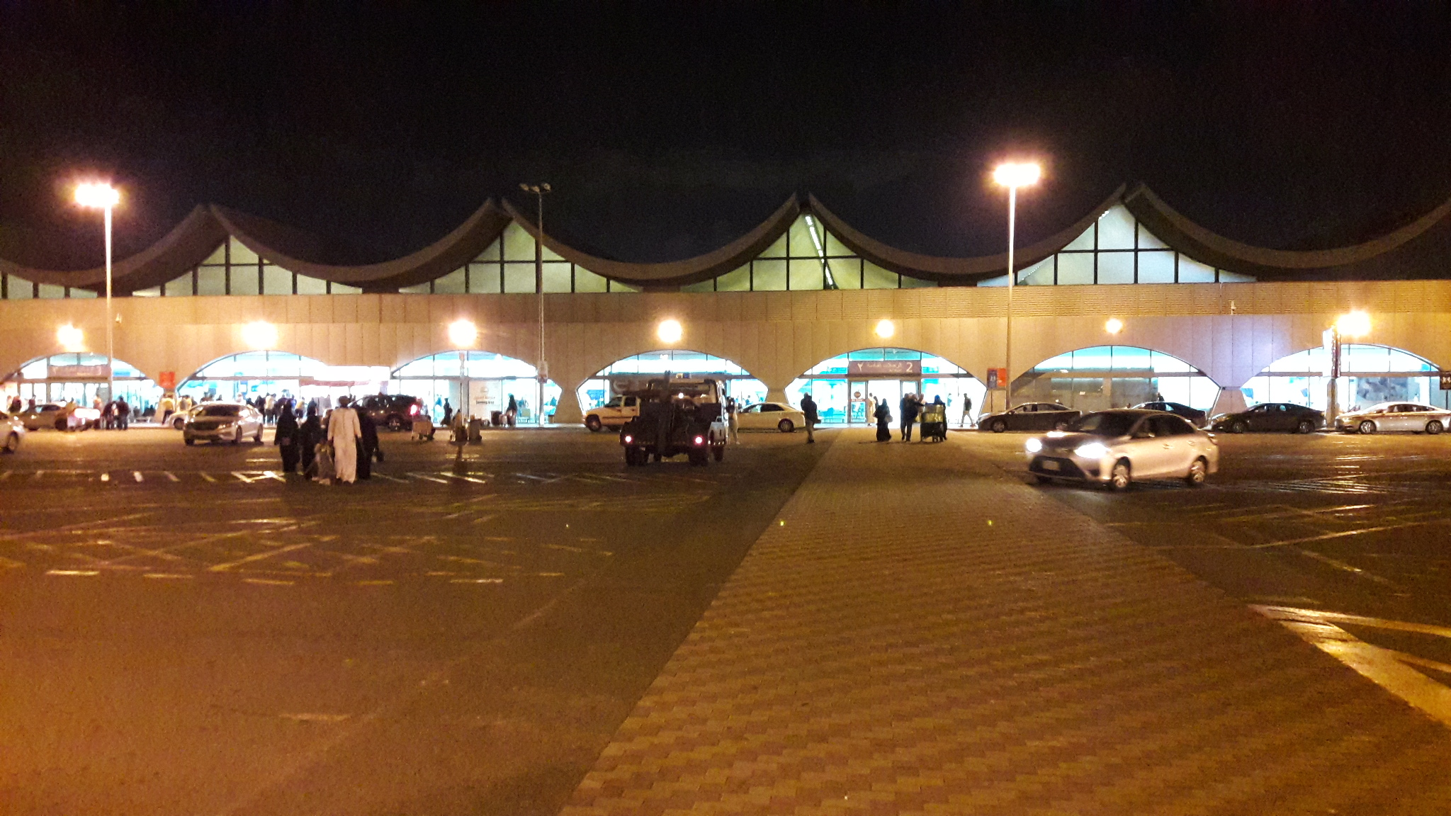 King Abdulaziz International Airport - North Terminal